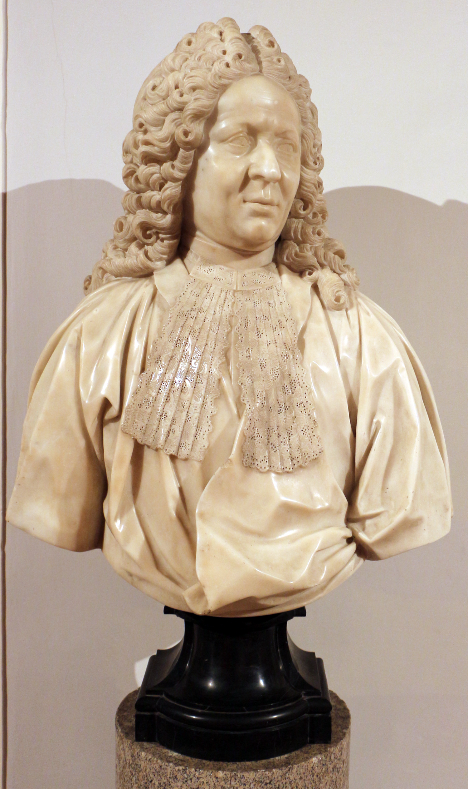 Fondazione Cavallini Sgarbi, on exhibition in Osimo (2016)